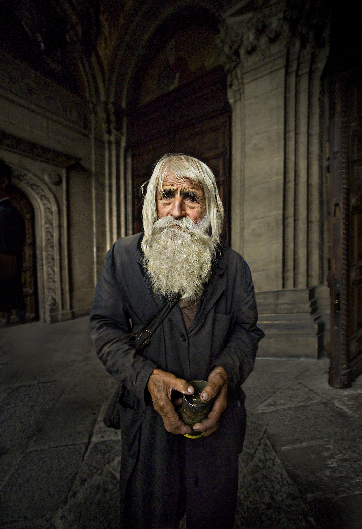 Dobri Dobrev standing in front of Alexander Nevski Cathedral, at age 94